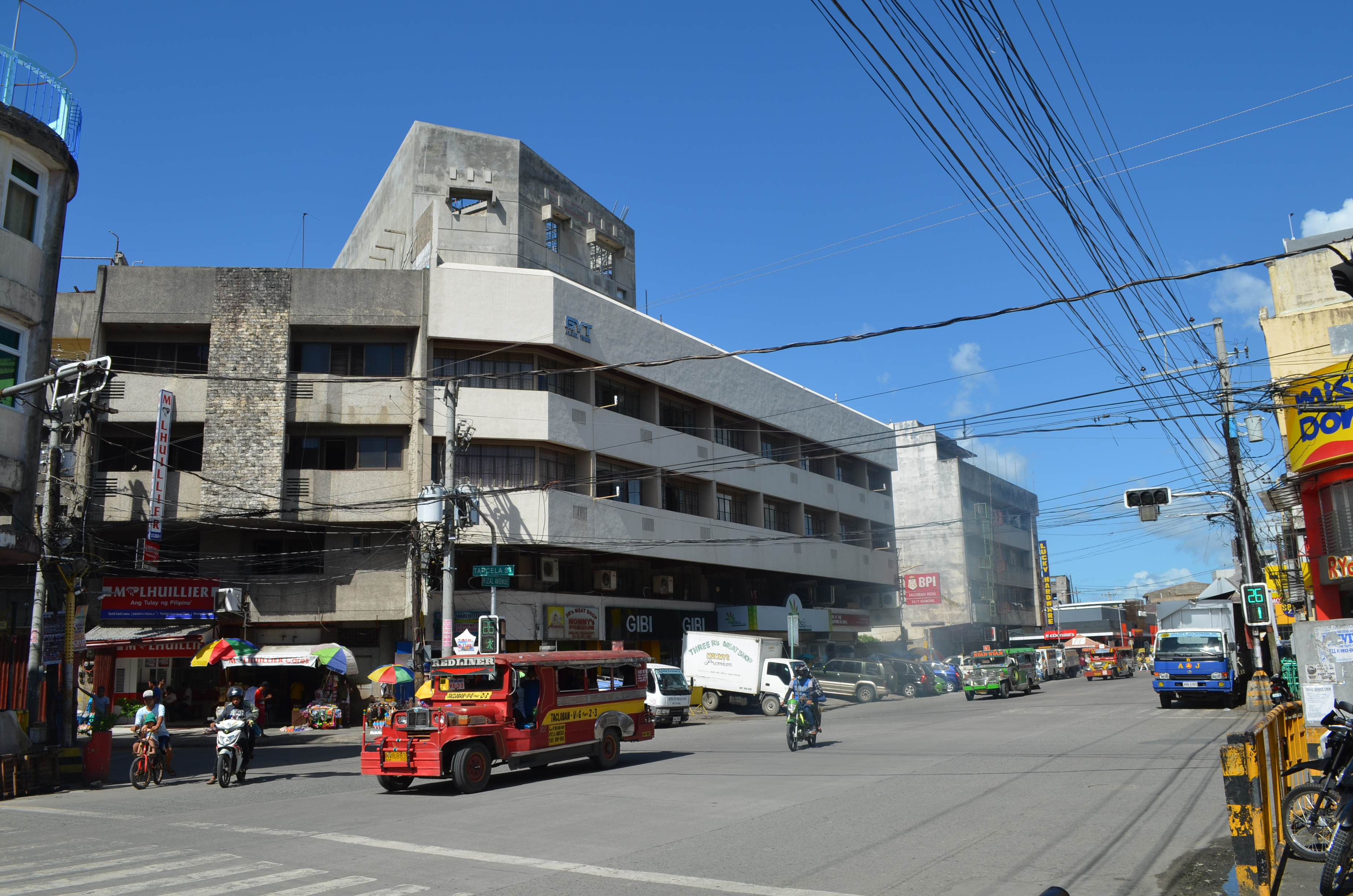 Taken during the December 2015 Sinirangan Bisaya Wikimedia Community activities in Eastern Visayas